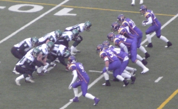 The Laurier Golden Hawks versus the Saskatchewan Huskies at the 2005 Vanier Cup.